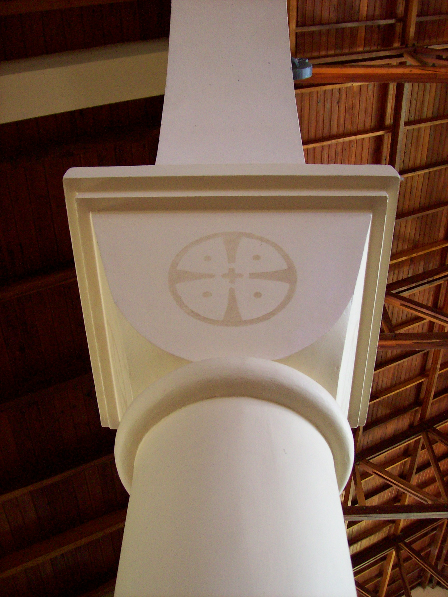 Benedictine symbol on one of the columns of the Abadía Benedictina del Niño Dios, Victoria, Entre Ríos, Argentina.